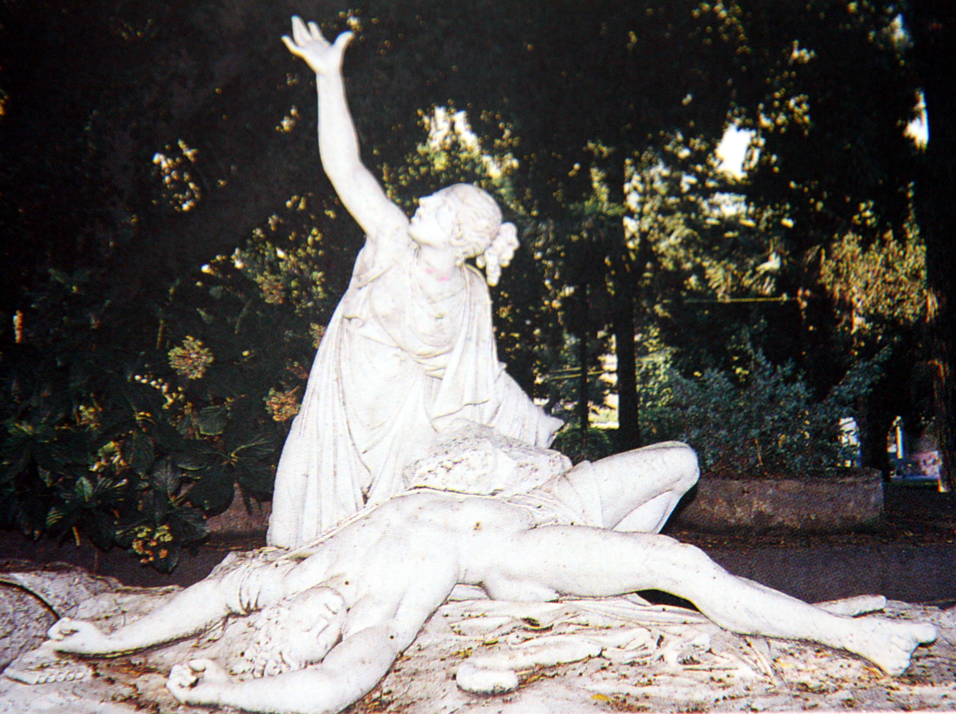 "Acis und Galathea" by Rosario Anastasi. Villa Comunale, Acireale